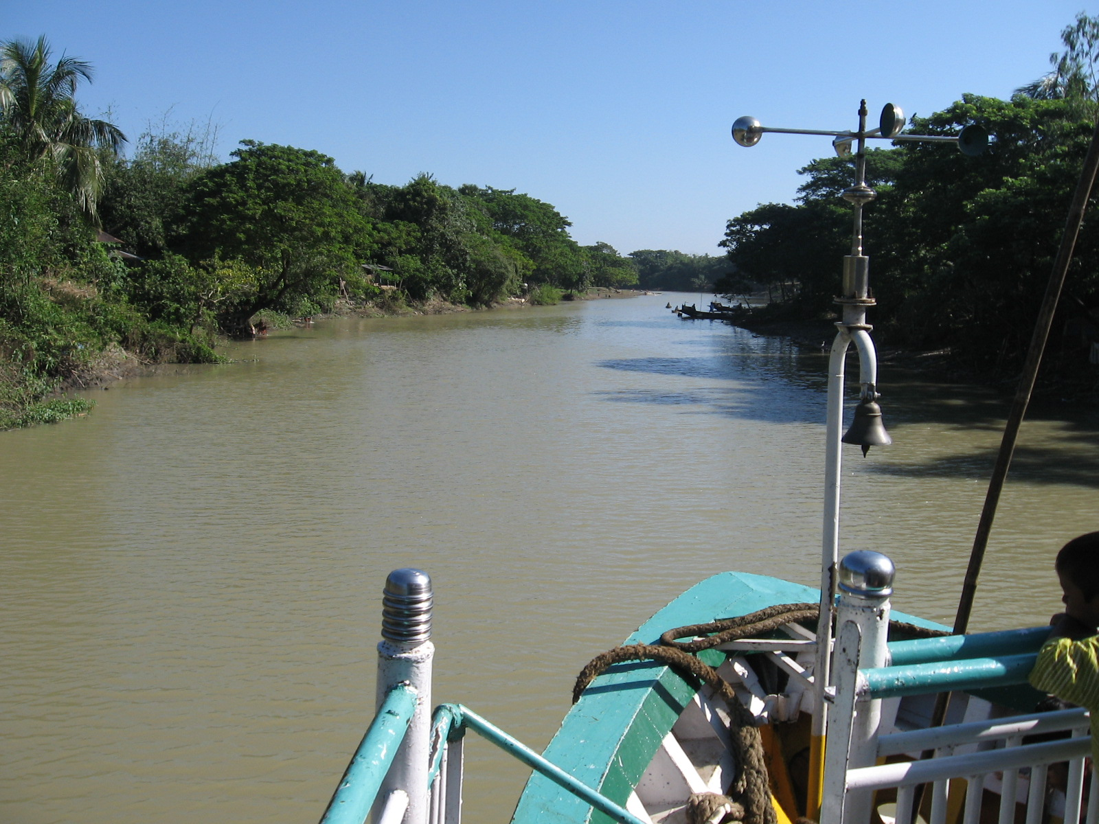 Own photo A launch proceeds along the Kangsha River